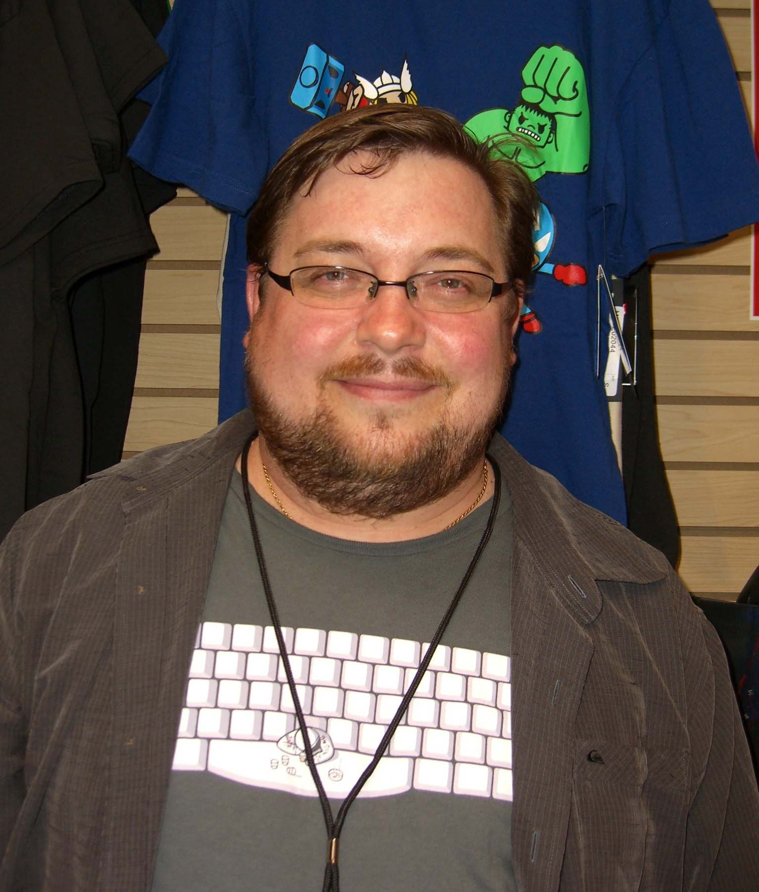 Marvel Comics Senior Vice President of Creative & Creator Development C.B. Cebulski at a "Meet the Publishers" Q & A session at Midtown Comics Downtown in Manhattan, April 14, 2011. Photographed by Luigi Novi. This photo is not in the public domain. It may, however, be used, modified and published for any purpose, free of charge, only if an easily visible credit to the photographer is placed near the photo in each instance in which it is used. (See licensing information below.) Publication of this photo without this proper attribution constitutes copyright infringement. For more information on my photos, you can contact me here.